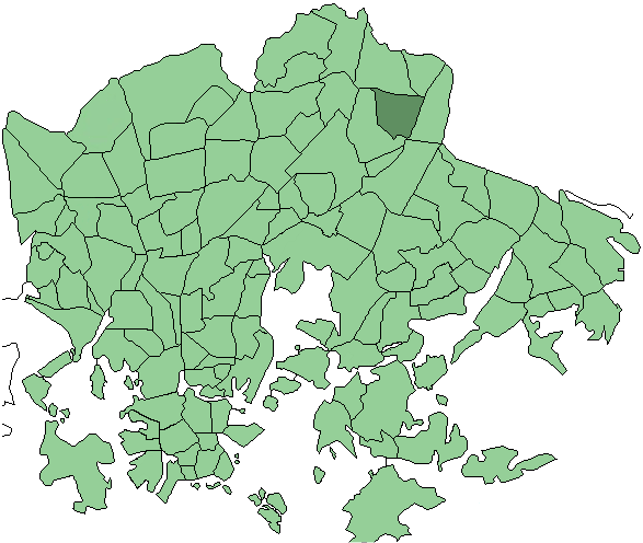 Districts of Helsinki, Tattarisuo highlighted